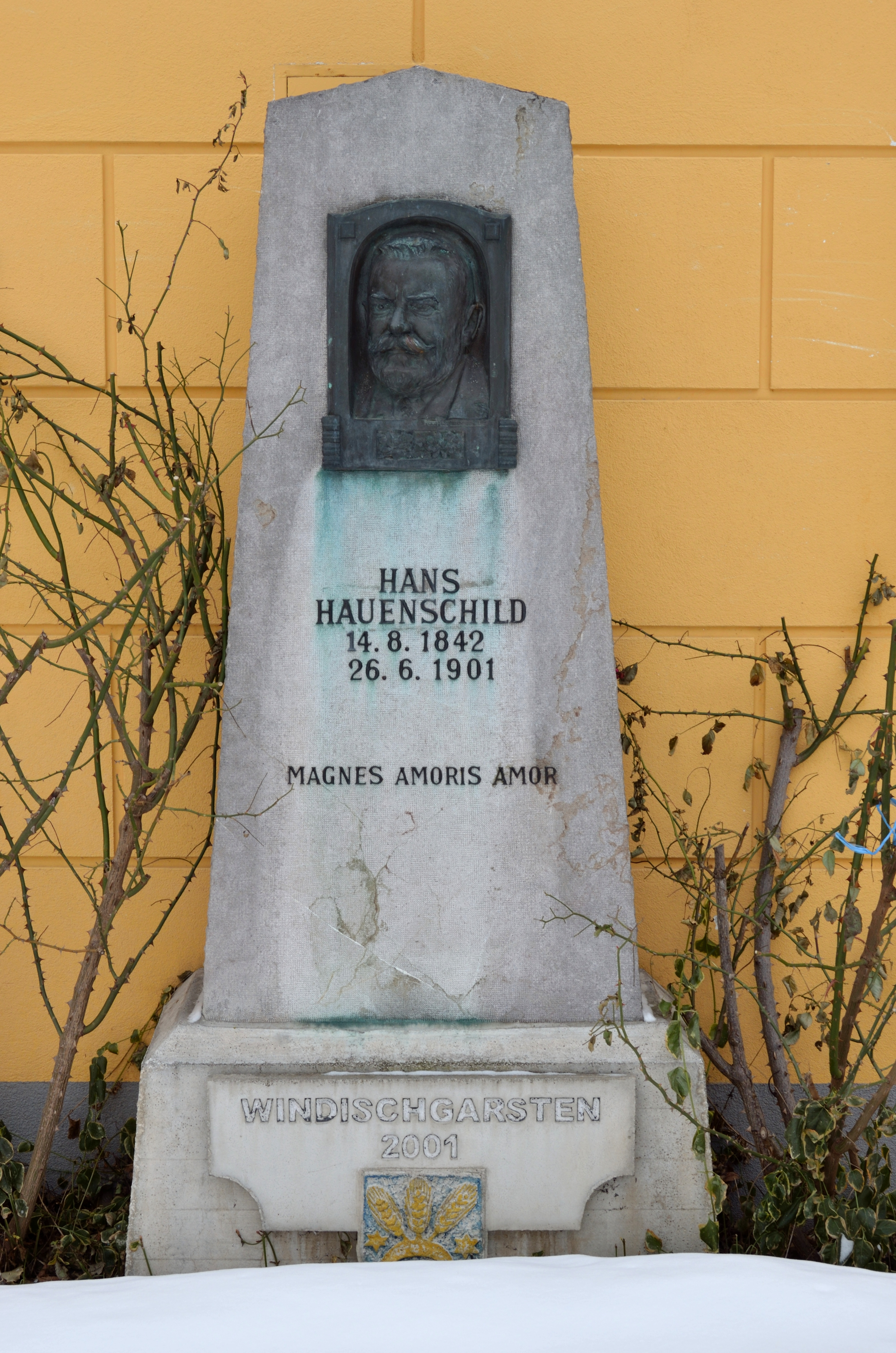 Memorial for Hans Hauenschild (1842-1901), born in Windischgarsten. The relief was created by Hauenschild's son Rudolf and the monument originally was the grave stone of Hauenschild's grave in Vouvry, Valais. The monument is located at the back side of the courthouse in Windischgarsten since 2001.